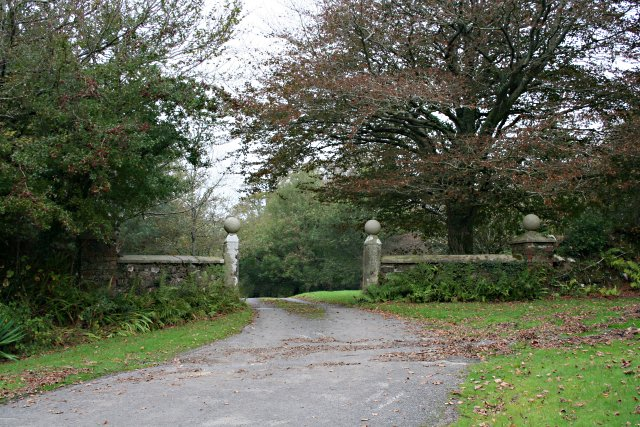 Gateway to Lower Manaton